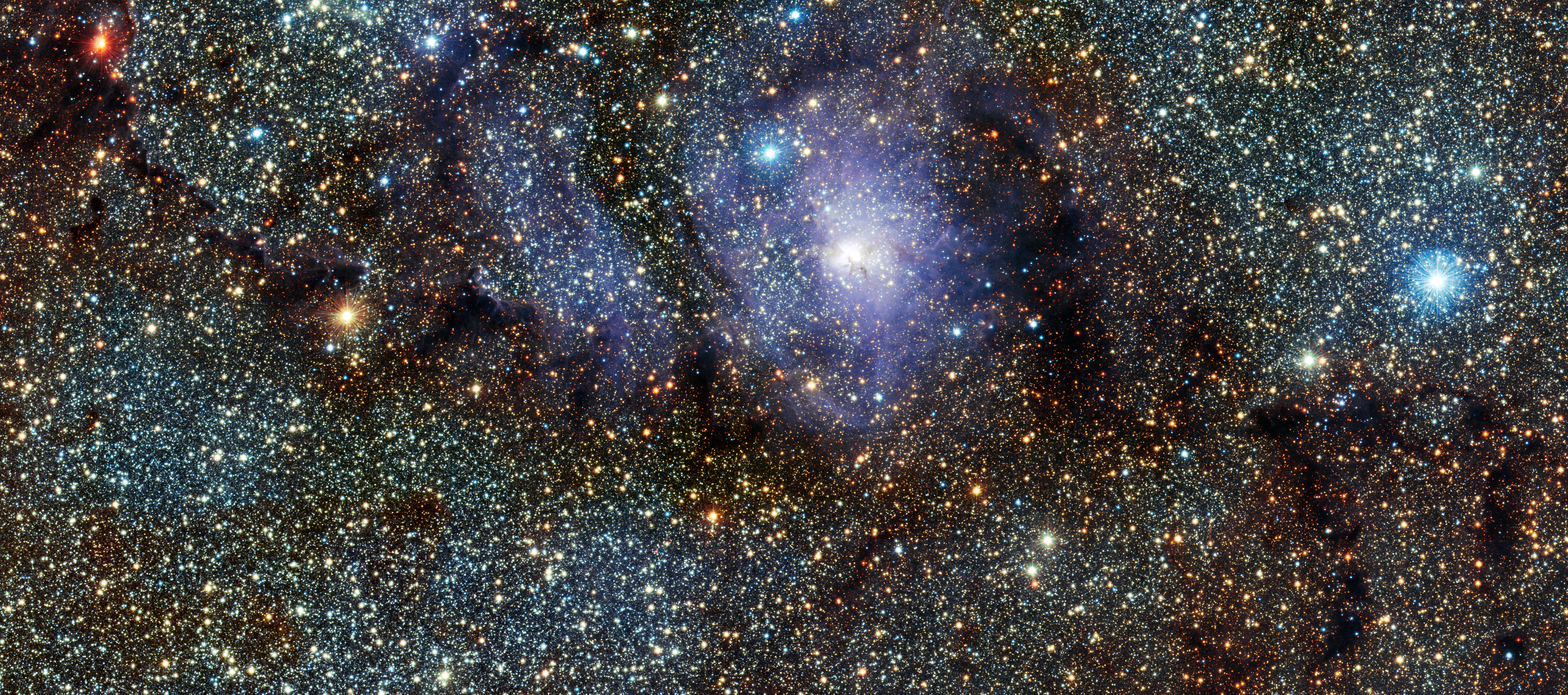 This new infrared view of the star formation region Messier 8, often called the Lagoon Nebula, was captured by the VISTA telescope at ESO’s Paranal Observatory in Chile. This colour picture was created from images taken through J, H and Ks near-infrared filters, and which were acquired as part of a huge survey of the central parts of the Milky Way. The field of view is about 34 by 15 arcminutes.